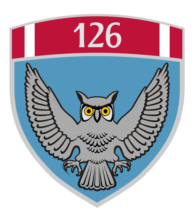 126th Center for Air Reconnaissance Distinctive Unit Insignia